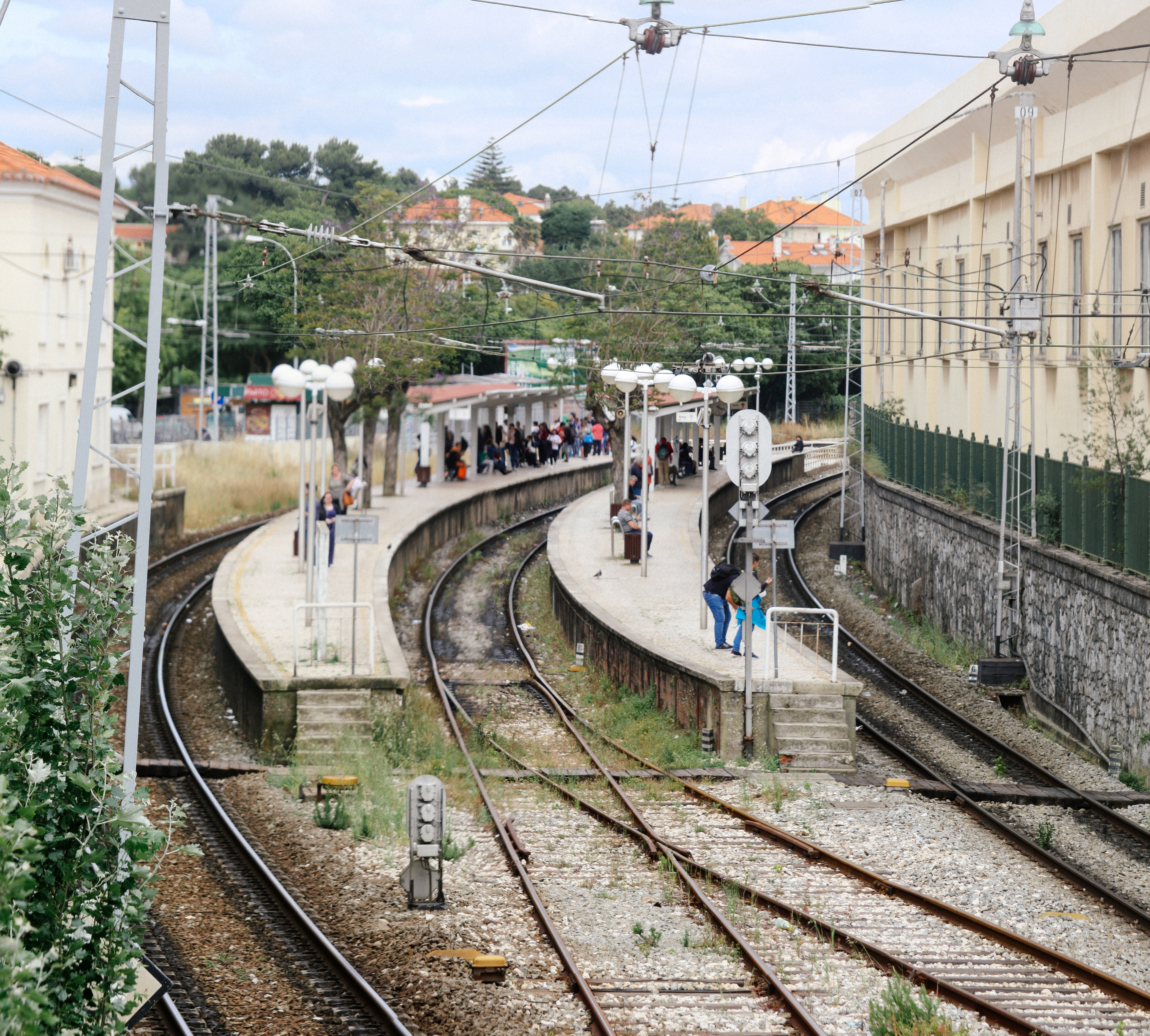 Oeiras train station, Linha de Cascais; Oeiras, Portugal